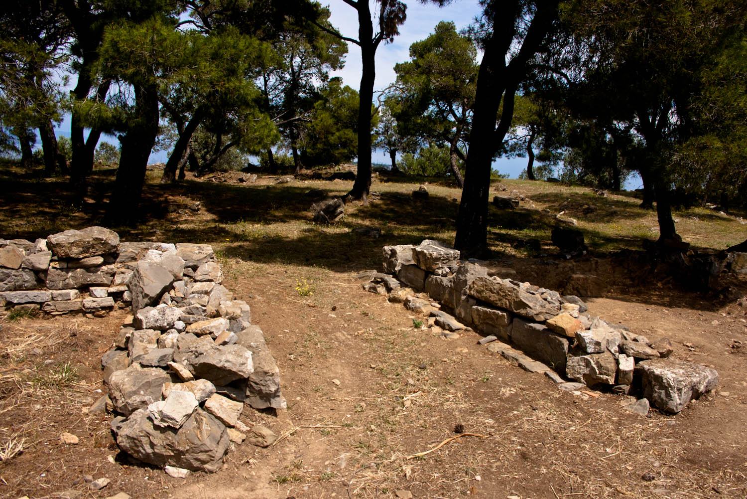 The south entrance to the temple area in the Sanctuary of Poseidon, Kalaureia.